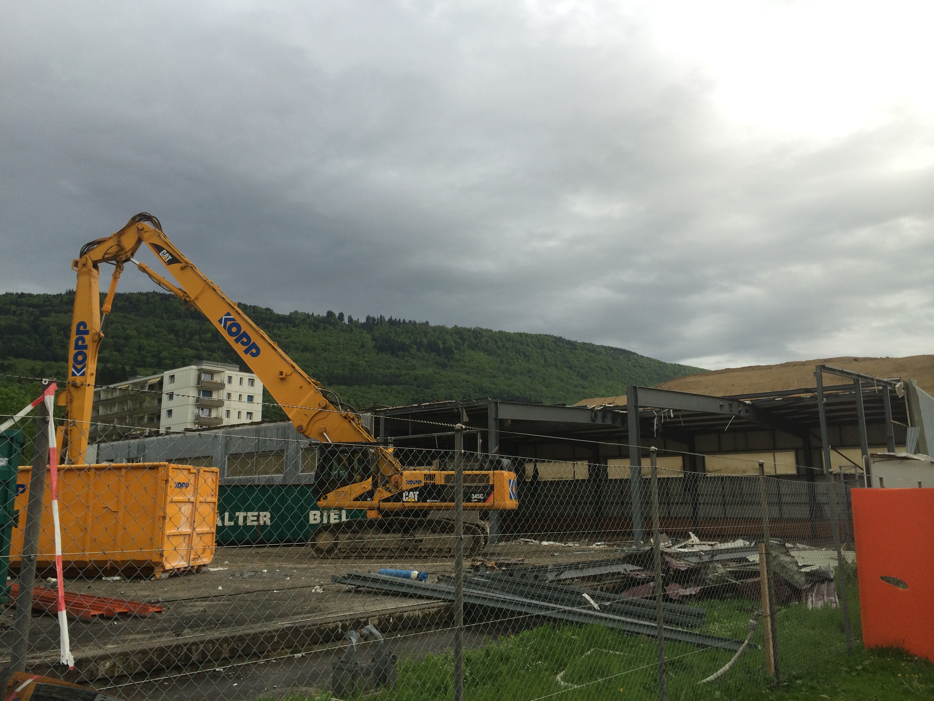 Abbruch alte Curlinghalle neben Eisstadion